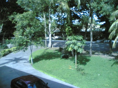 Inside the Aklan State University in Banga, Aklan, the Philippines. This is the view from the university hotel. Author: Phillip Kimpo Jr. ( Taken on: August 2006